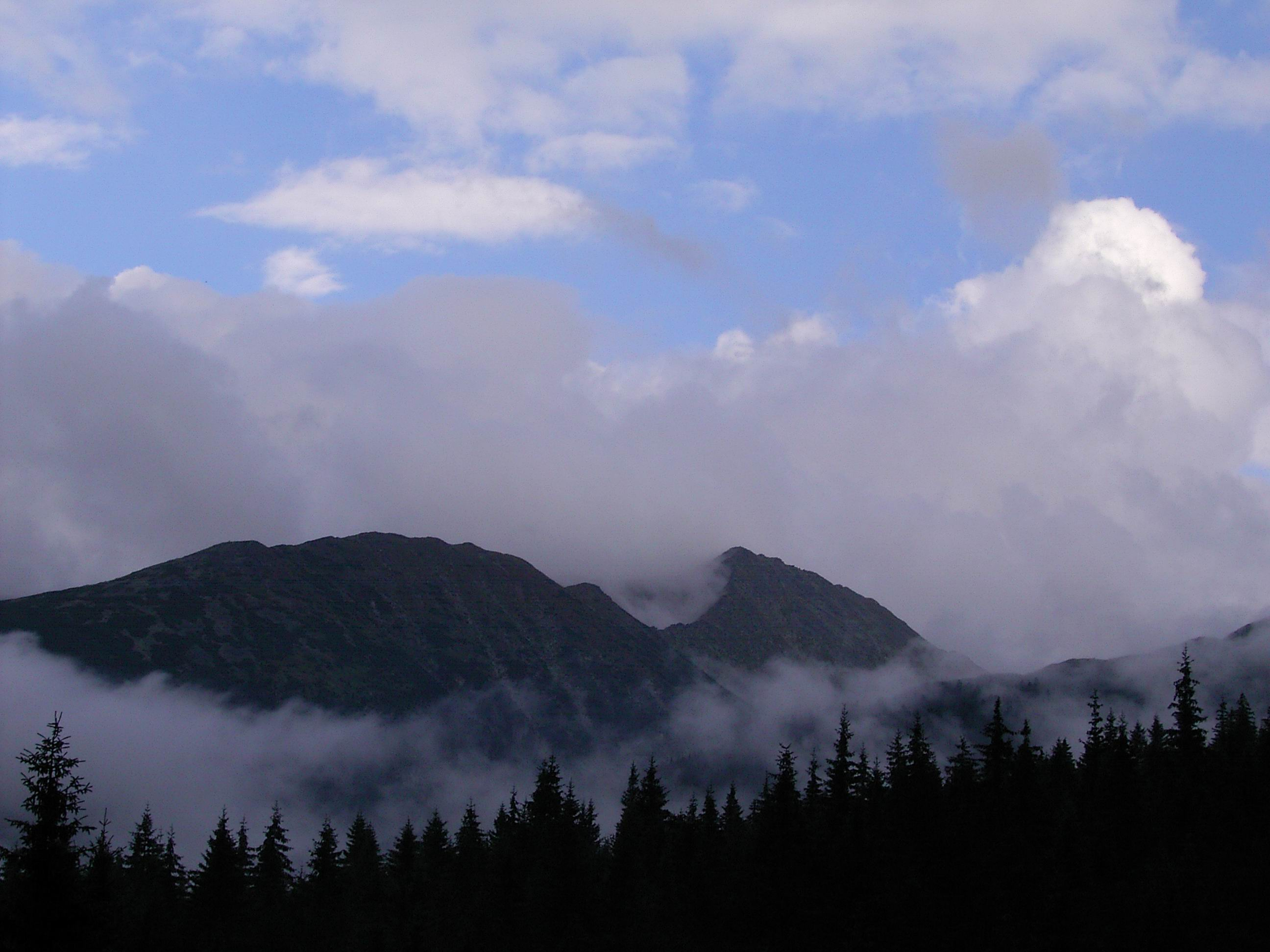 Mare Peak